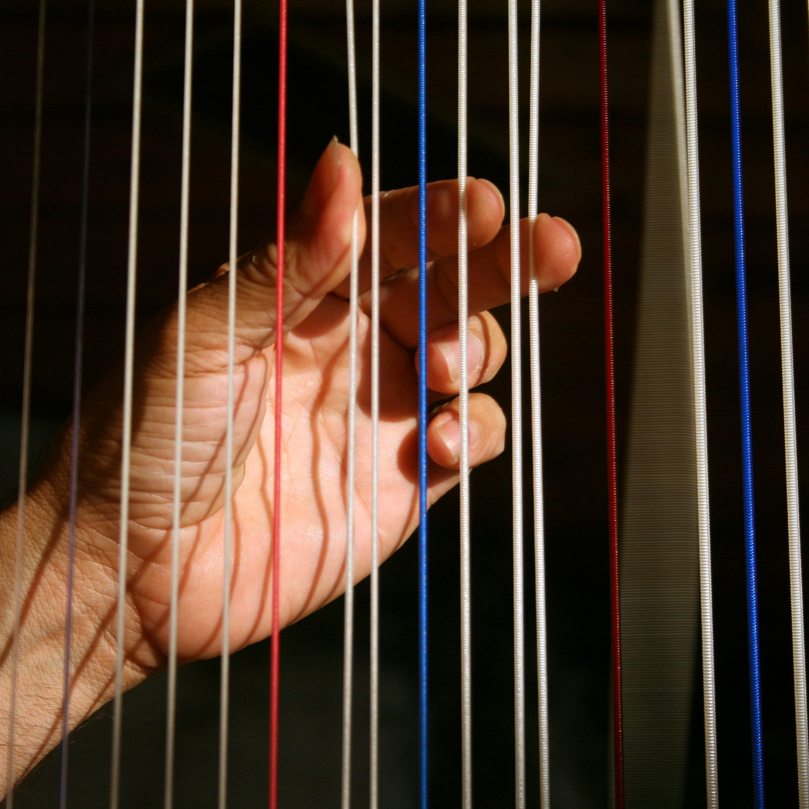 Hands of a harpist playing